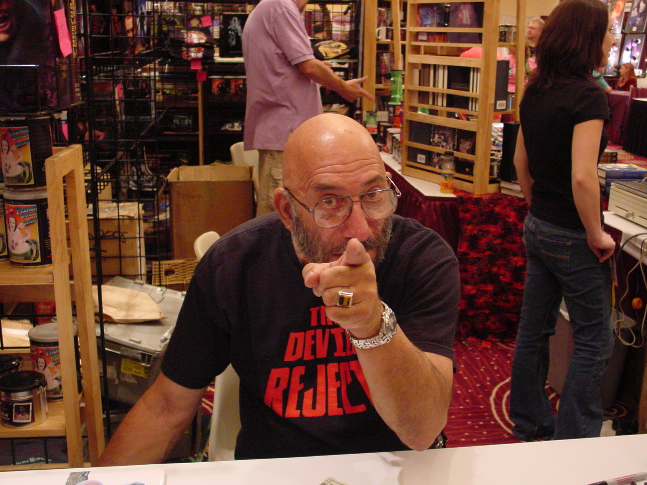 Sid Haig (who played Captain Spaulding in several Rob Zombie films), apparently at the 2005 Dragon*Con Original caption: "Sid Haig in the 2005 DragCon events"